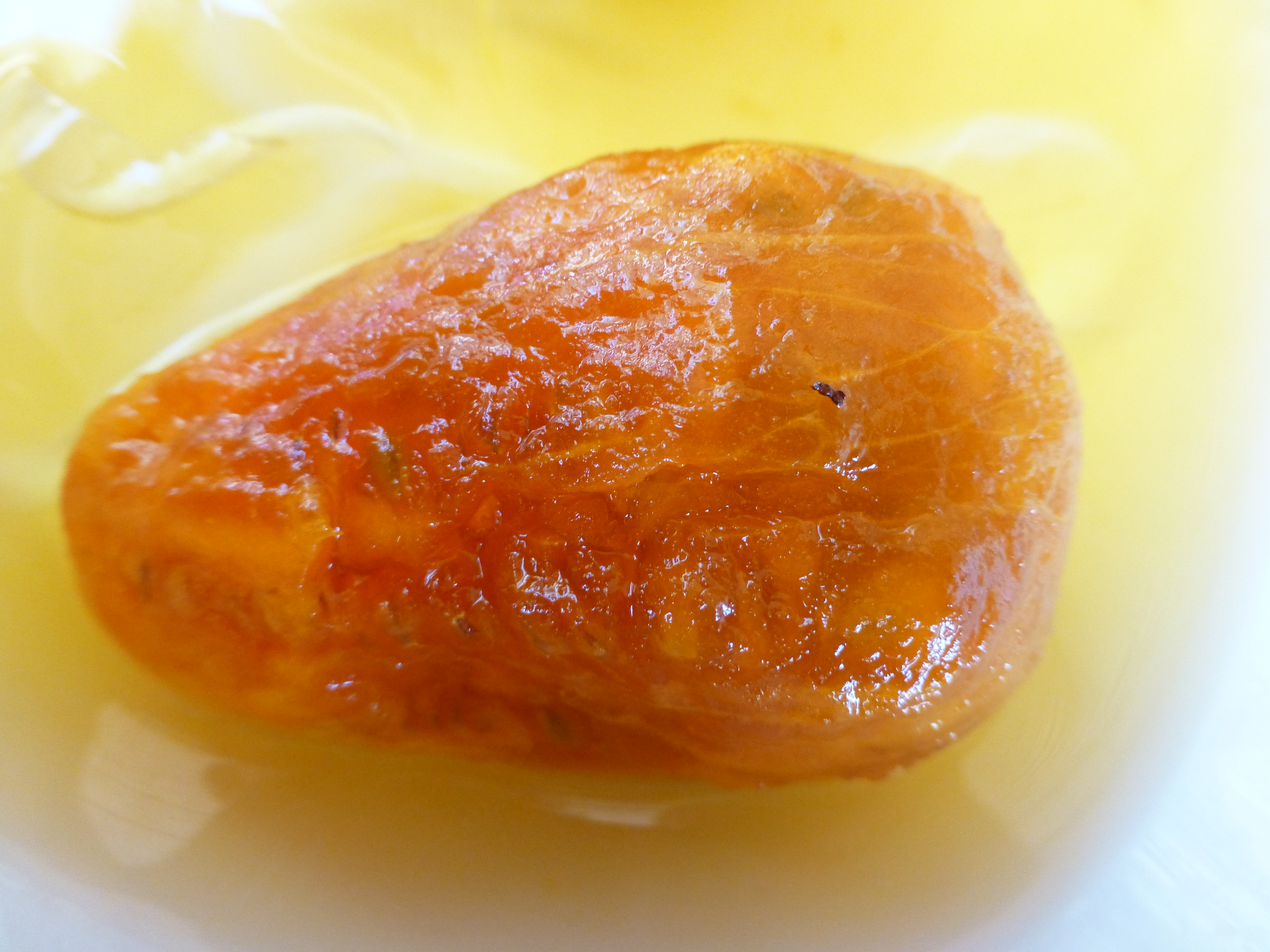 Opuntia ficus-indica, Datça, Turkeyl